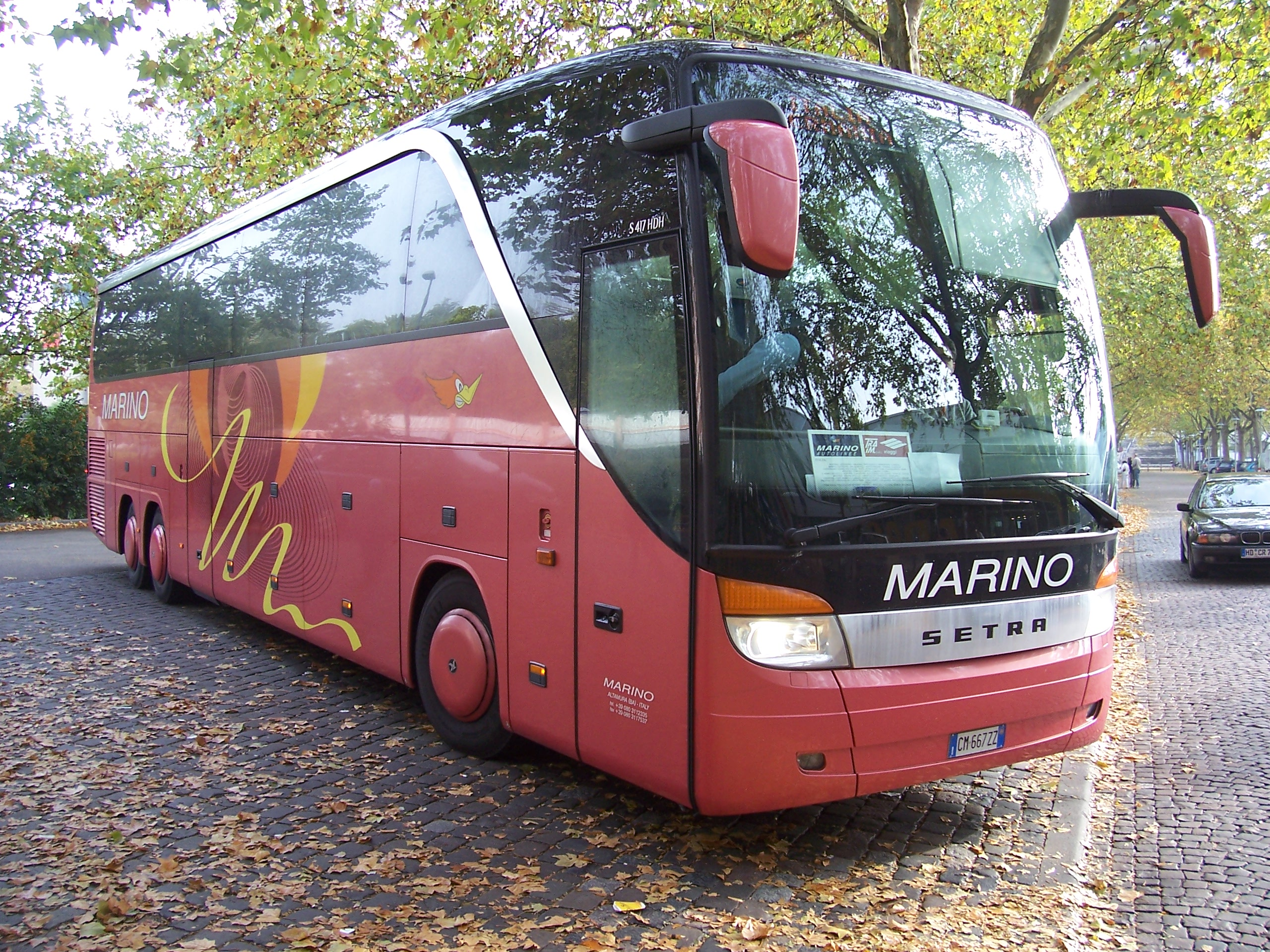 Setra S 417 HDH coach (CM 667ZZ; #162) in Mannheim, Germany. Marino from Altamura (Bari) in Italy operator.